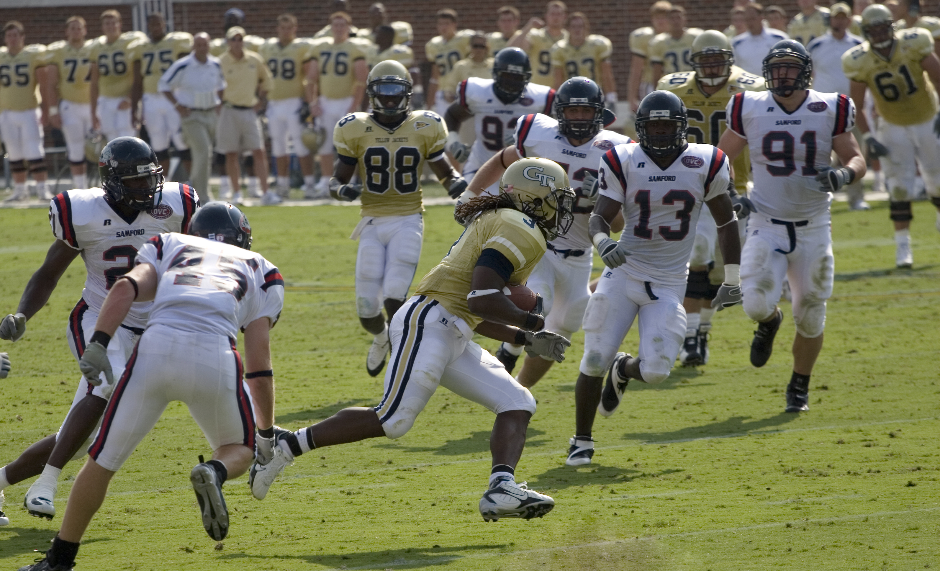 Rashaun Grant for Georgia Tech carries the football against Samford